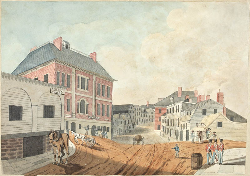 Lower Water Street, Halifax seen from the gate of the main Guard House, Nova Scotia, June 1823.